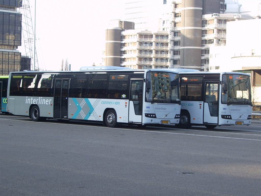 Two Volvo 8700 LE bus (#3530) and (#3548) in The Hague, Netherlands. Built 2005, Connexxion operator.